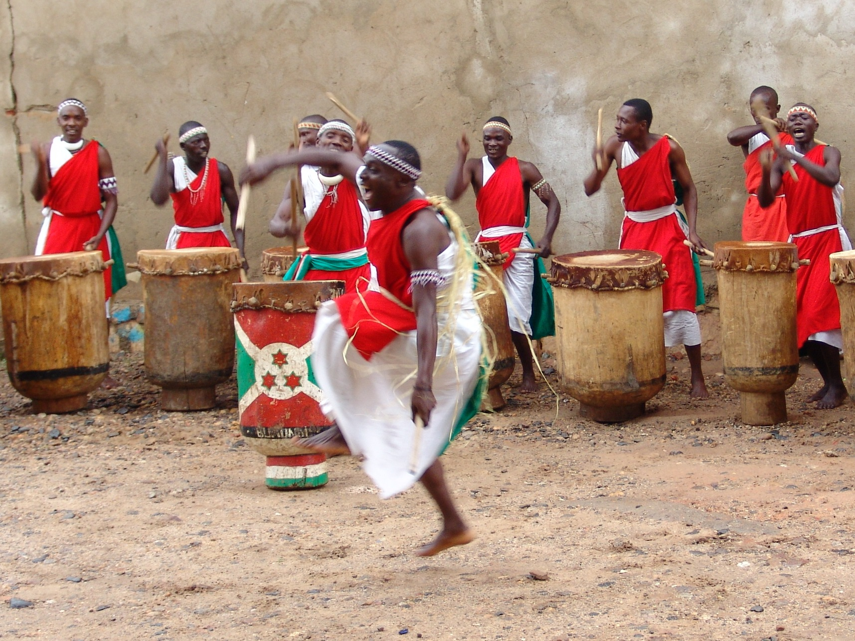 Traditional Burundian drummers perform at a public event in Burundi's capital, Bujumbura.